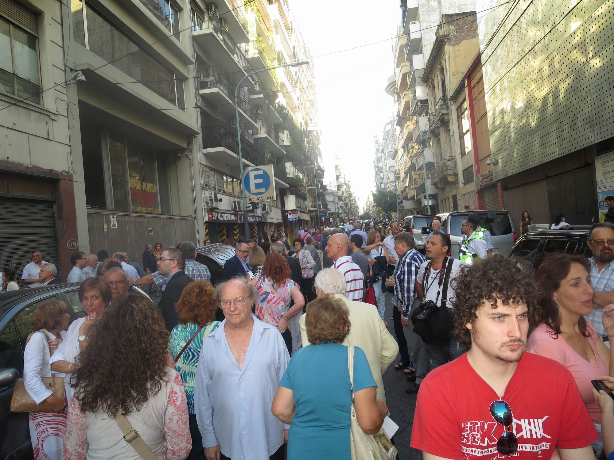 Argentines have been taking to the streets in 2015 to demand justice for the dead prosecutor Alberto Nisman